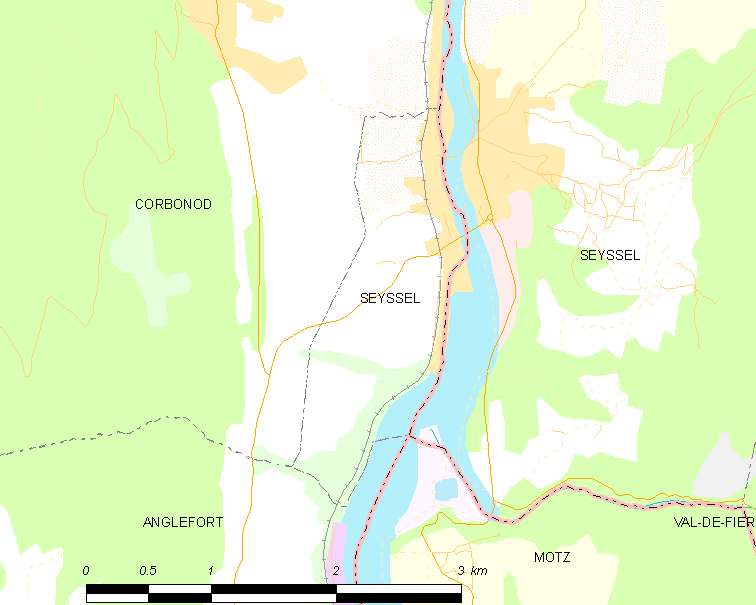 Map of French commune: Seyssel Map commune FR insee code 01407.png